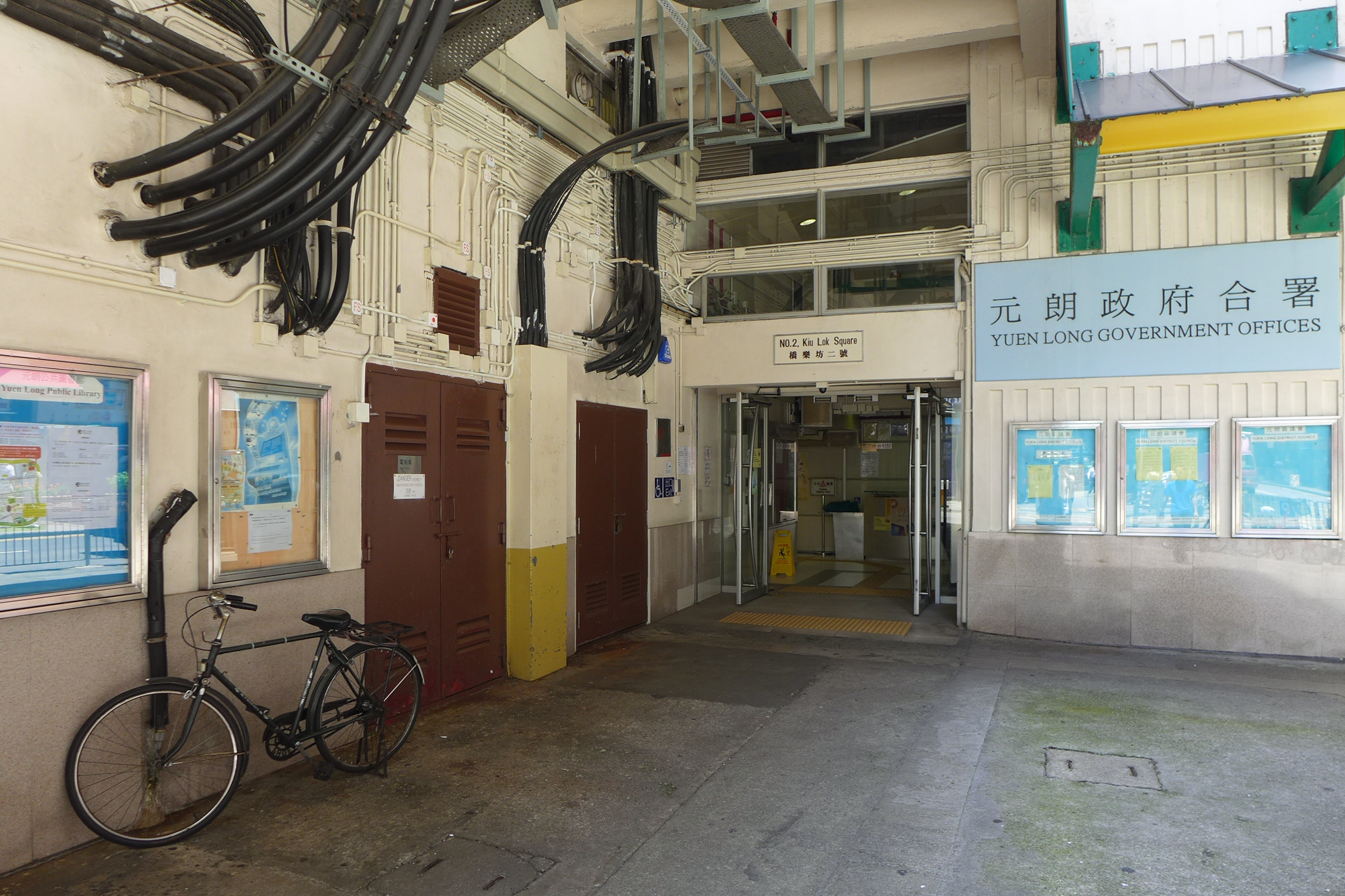 Yuen Long Government Offices Entrance